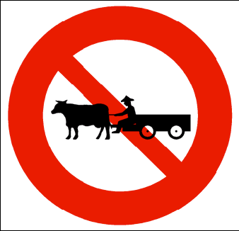 Taiwanese Prohibitory Sign P12: No Animal-Drawn Vehicles